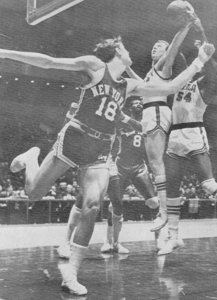 Professional basketball players Phil Jackson (left; #18), Walt Bellamy (center; #8), Bill Cunningham (right; with ball), Lucious Jackson (far right; #54)